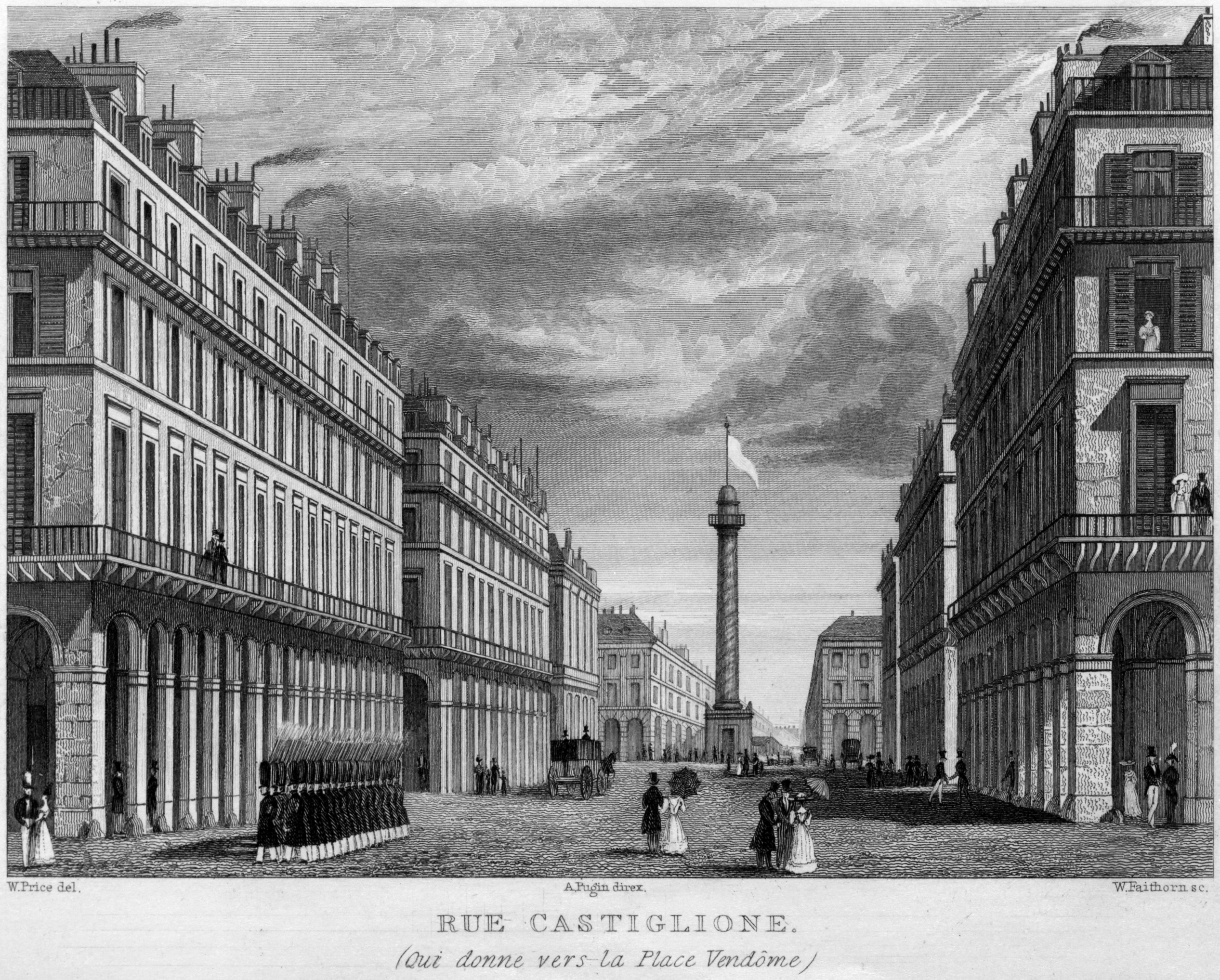 The rue de Castiglione was inaugurated in 1802 and received its name from Napoléon's famous 1796 victory over the Austrians. This street connects the rue Saint-Honoré with the Tuileries garden. This 1831 engraving provides a dramatic view of the Place Vendôme.